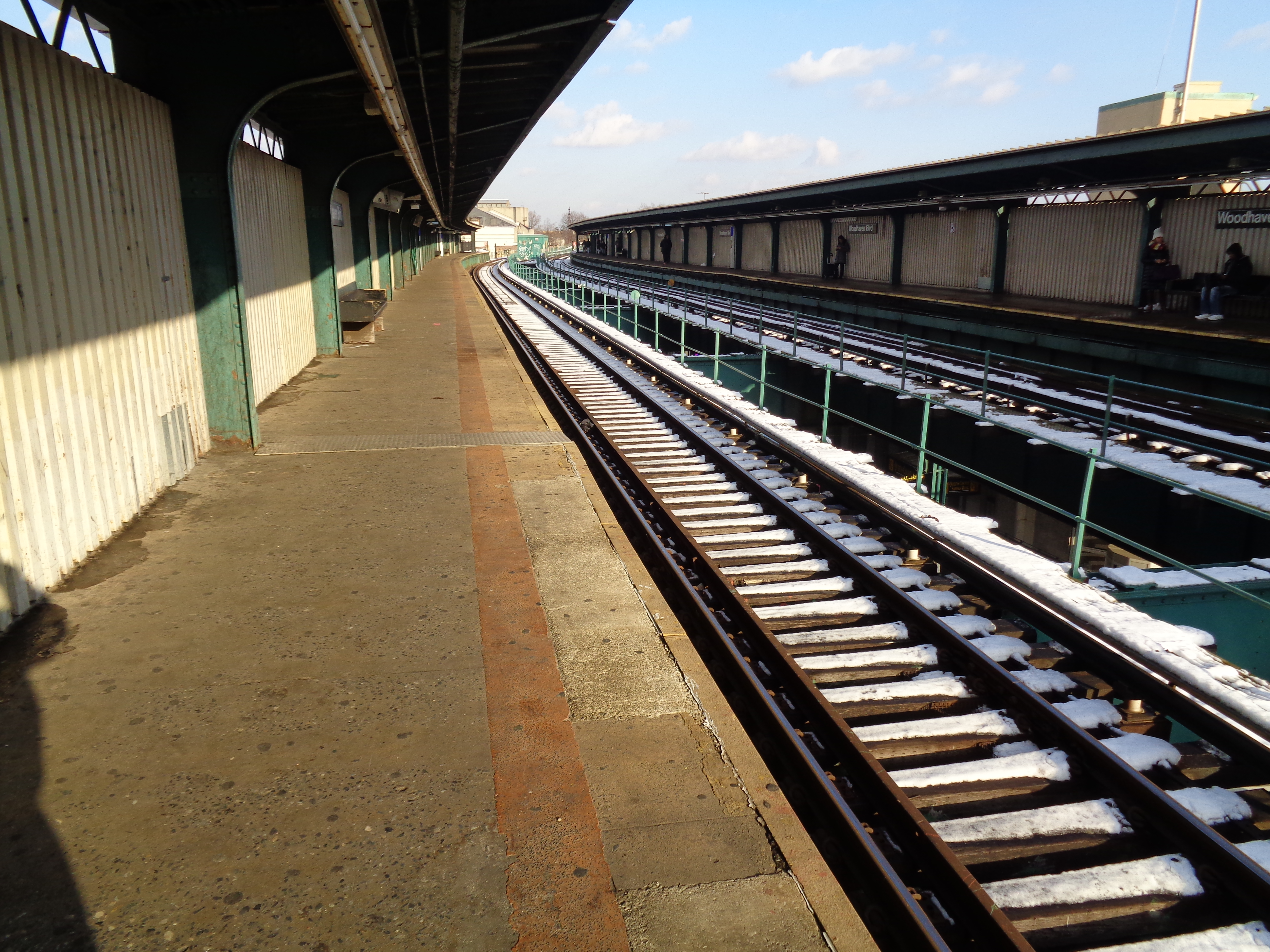 The Manhattan-bound platform of the Woodhaven Boulevard BMT Jamaica Line station, above Jamaica Avenue in Woodhaven, Queens.